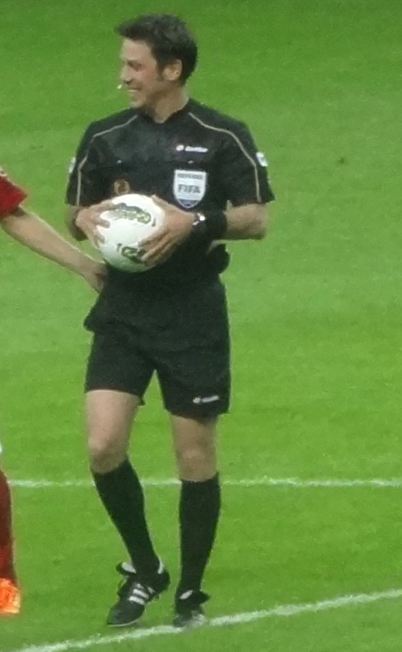 Aydınus before Galatasaray-Trabzonspor match